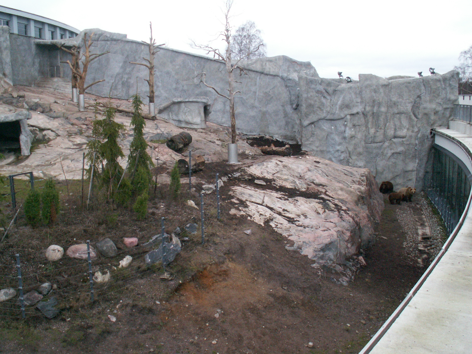 European Brown Bear at Korkeasaari(Högholmen) Zoo in Finlands Capital Helsinki